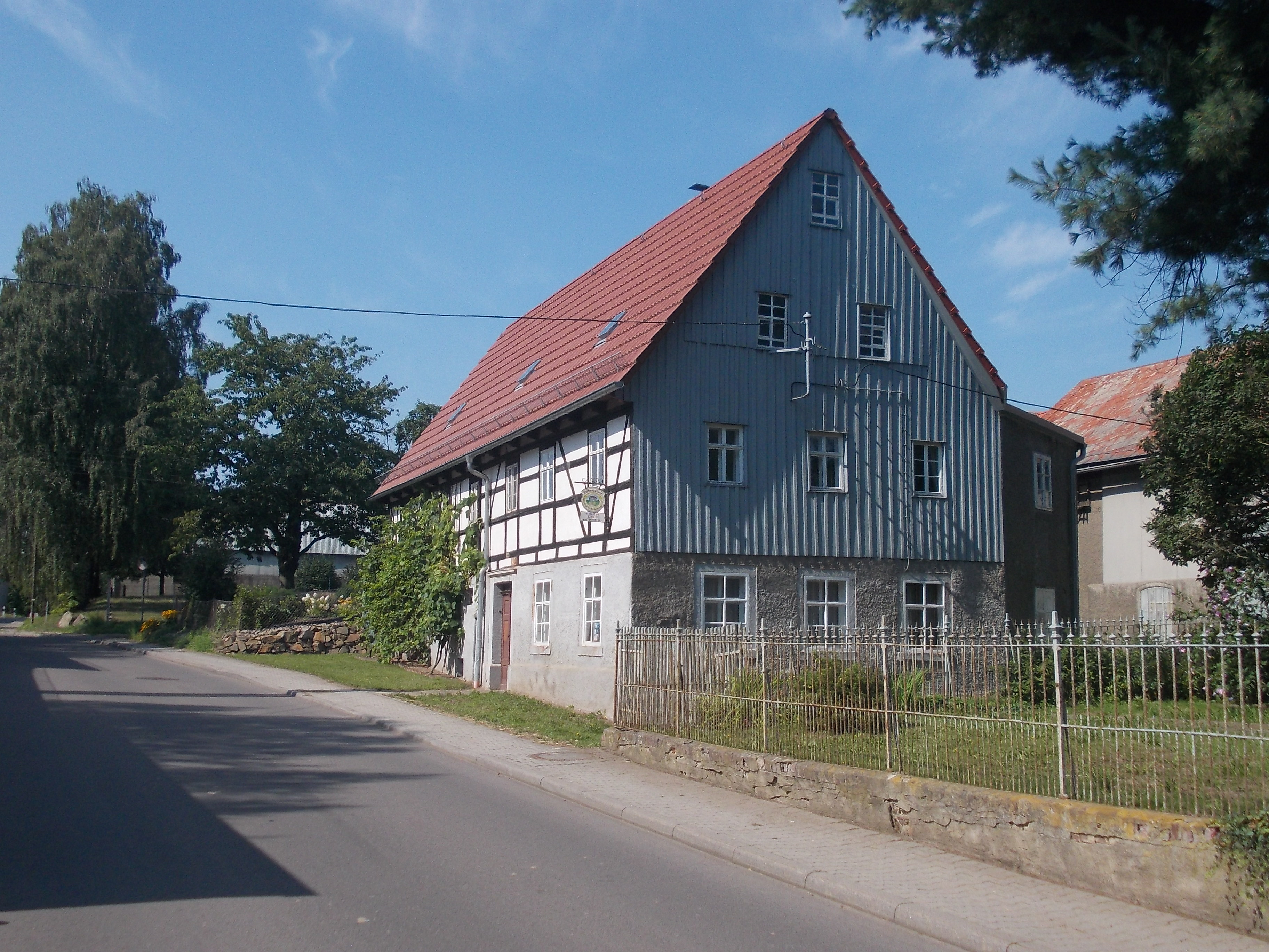 Village museum in Littdorf (Rosswein, Mittelsachsen district, Saxony)